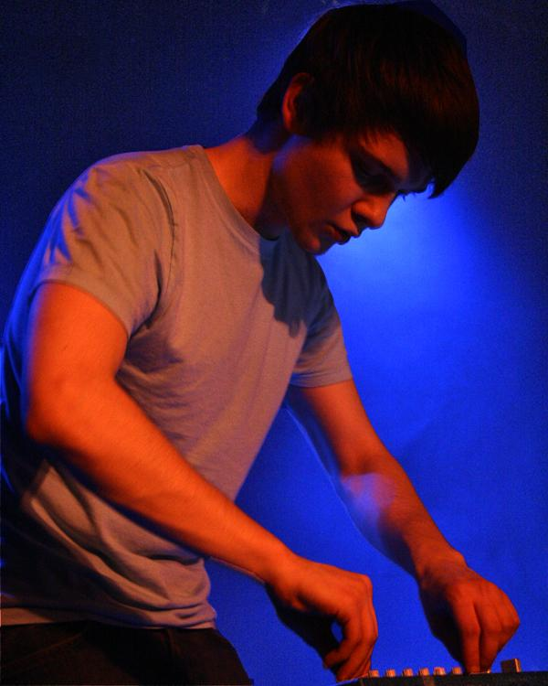 Sabrepulse, for the Sabrepulse article on en.